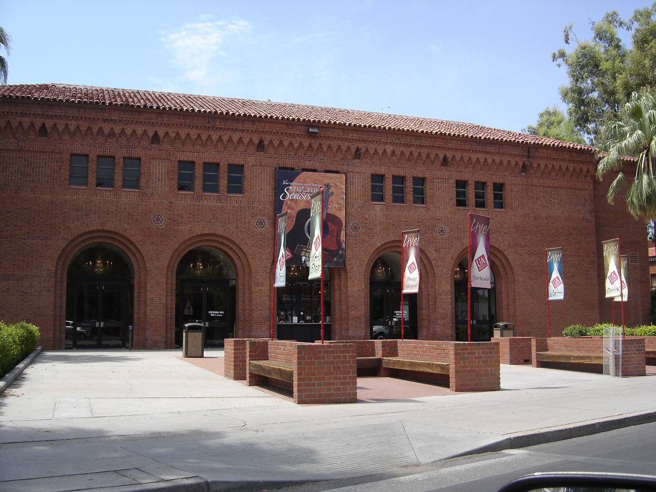 University of Arizona